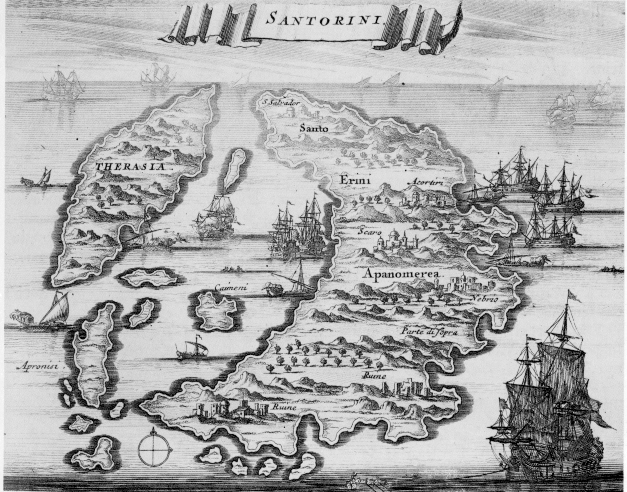 Old map of Santorini, Greece, chalcography